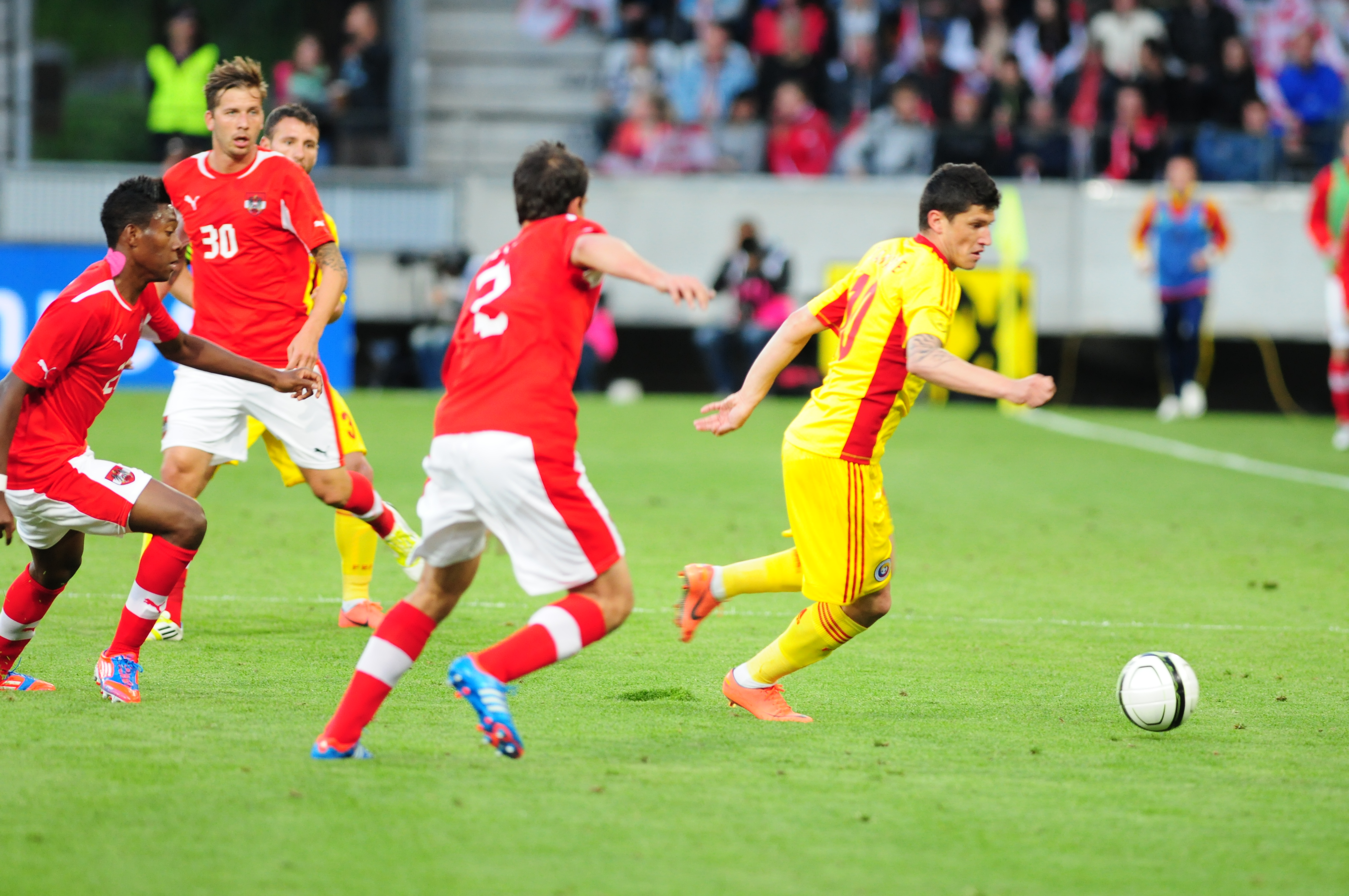 Exhibition game Austria vs. Romania at 5st. June 2012